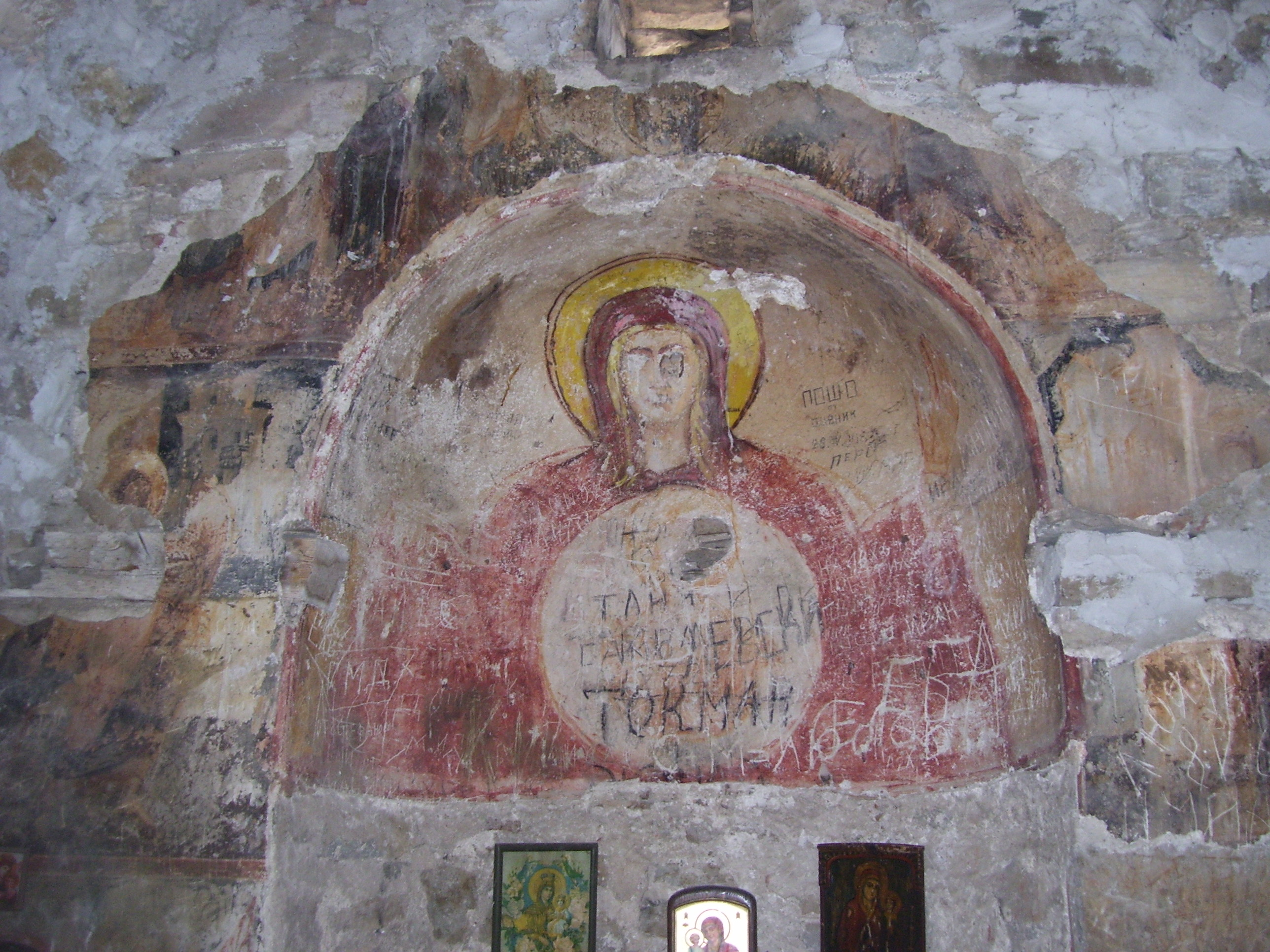 Bulgarian medieval church "Saint Joan Letni".